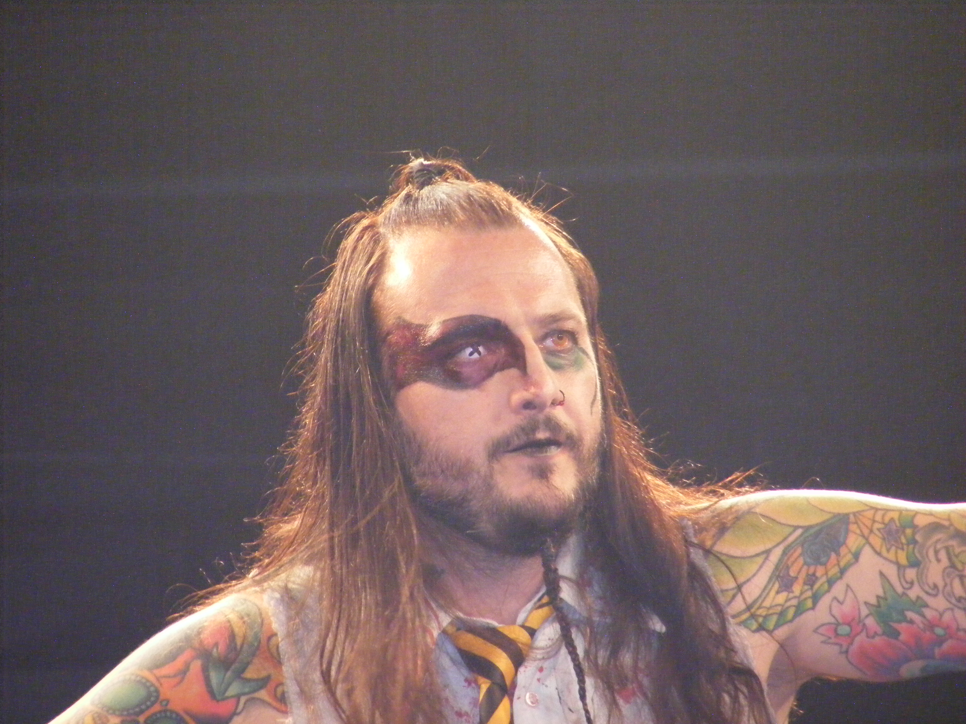 Professional wrestler Sinn Bodhi at Chikara King of Trios 2011.